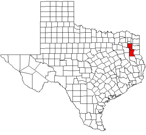 Map of Texas highlighting the Longview Metropolitan Statistical Area; created with the GIMP. Made by User:Acntx.